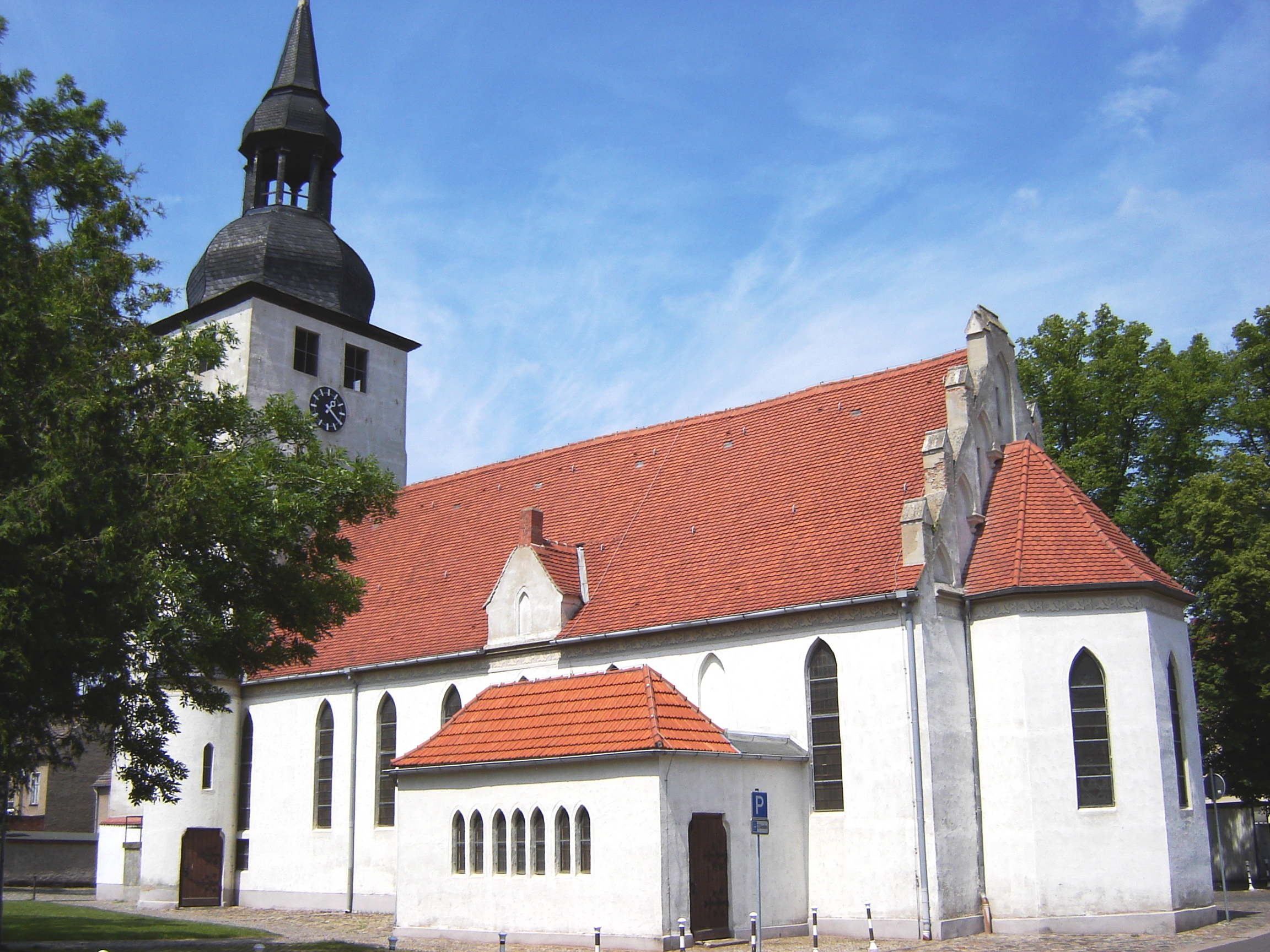 Protestant church in Gommern (Saxony-Anhalt)